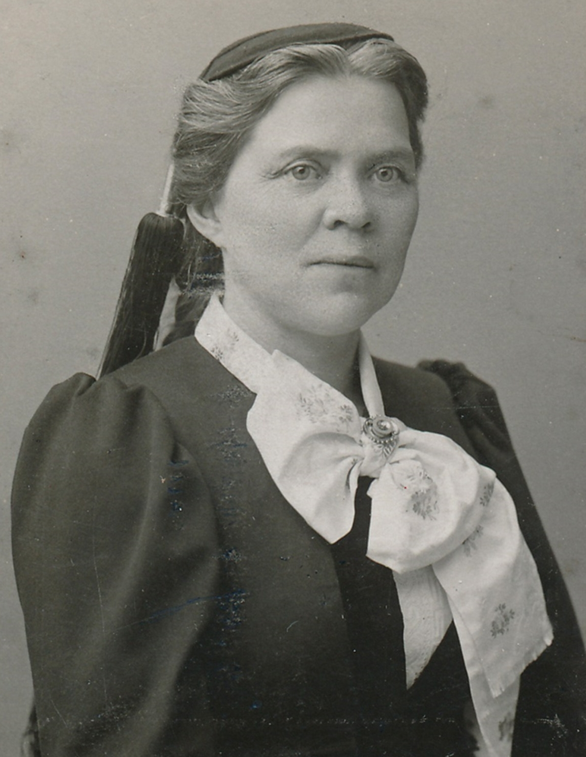 Cropped version of "Photograph of the Icelandic schoolteacher and cookbook author Elín Briem (1856-1937)"